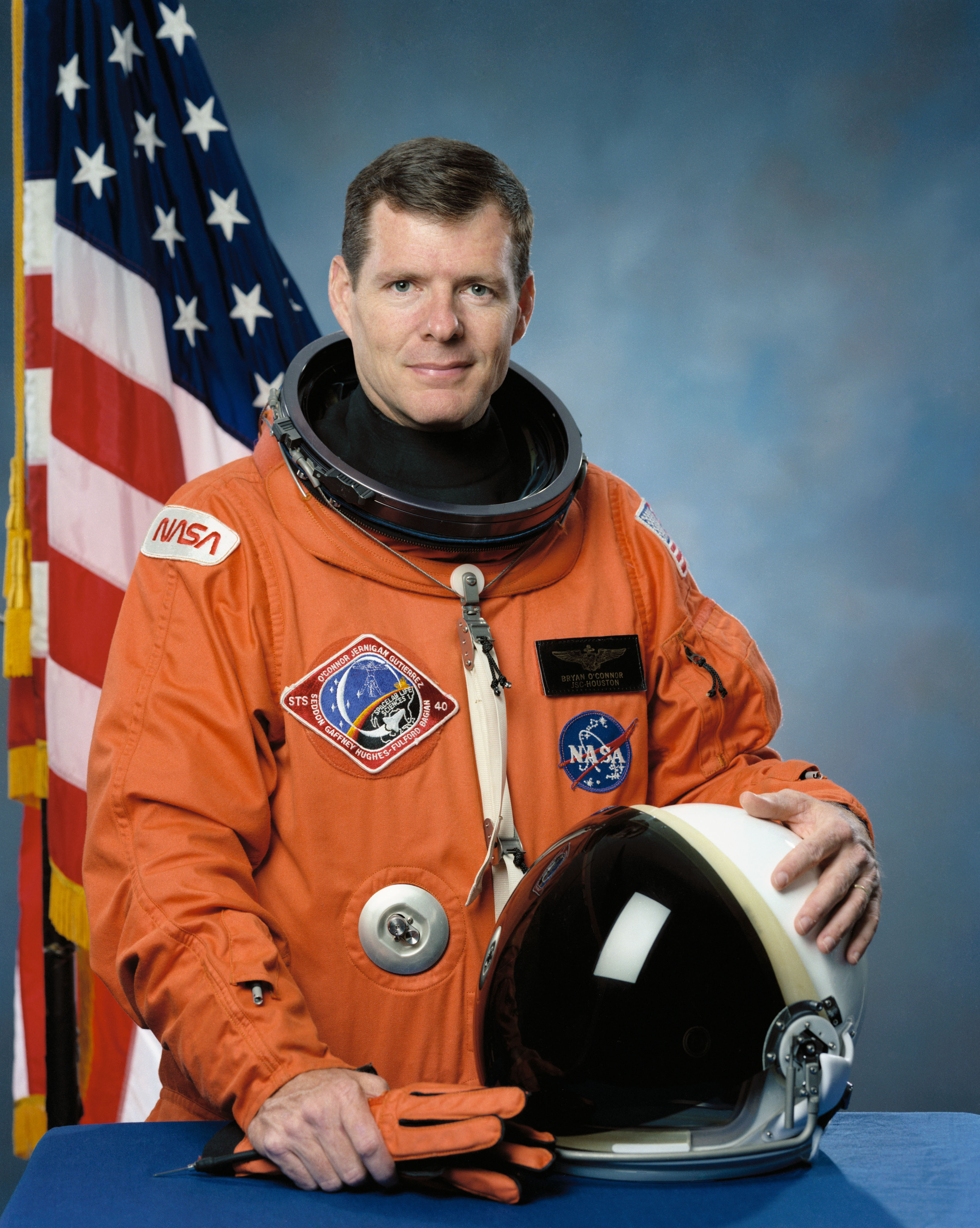 United States astronaut Brian D. O'Connor